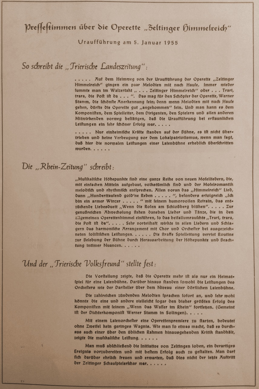 This document shows some press critics about the premier of the "Zeltinger Himmelreich Ooperette" that took place January 5th in 1955 in the Hotel Nicolay zur Post, Zeltingen, Germany